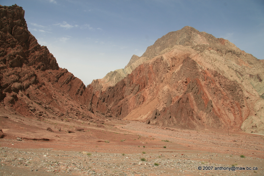 China Xinjiang Karakoram Highway Fire Mountains